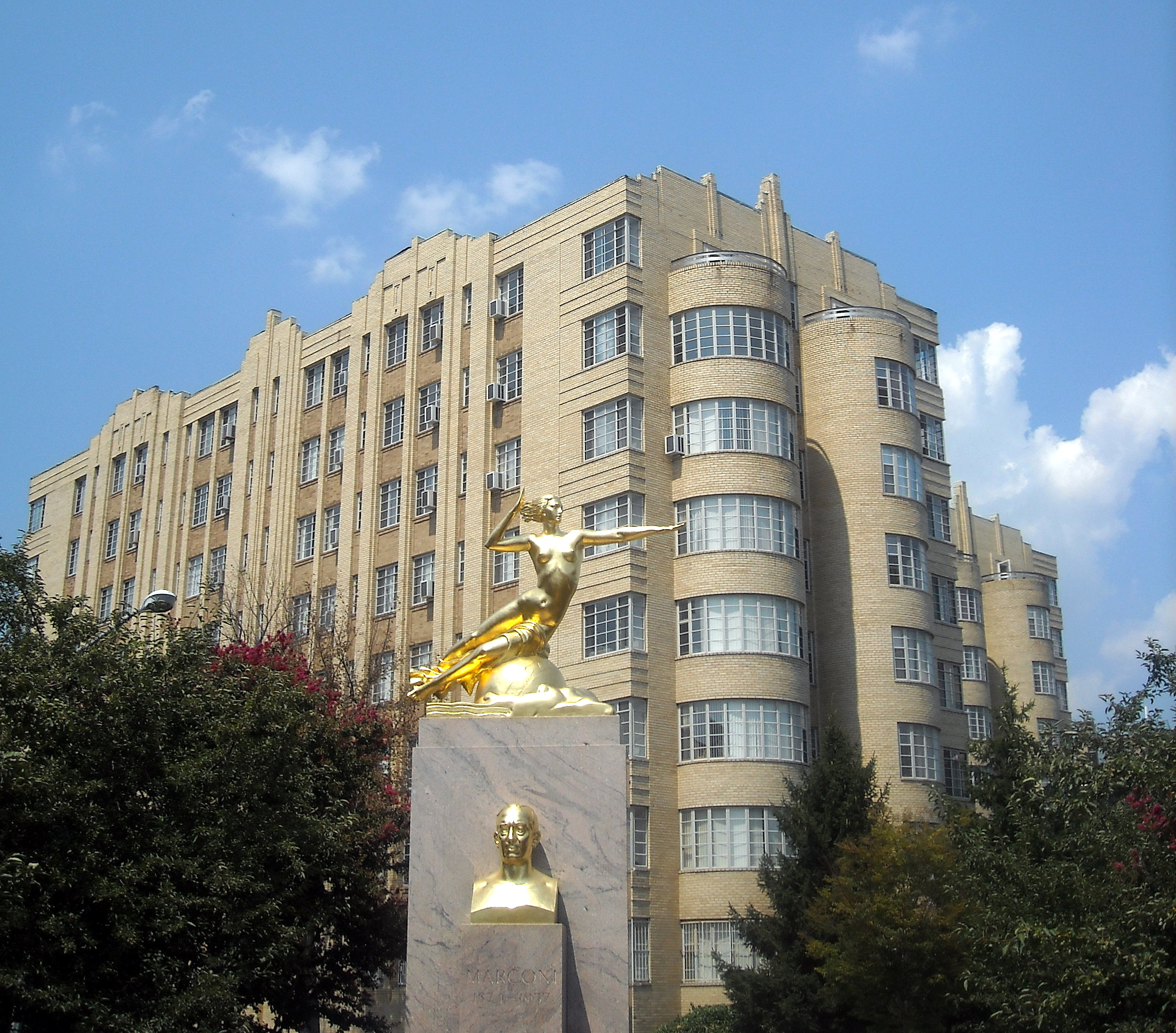 Majestic Apartments at 3200 16th Street, NW in the Mt. Pleasant/Columbia Heights neighborhood of Washington, D.C. The Guglielmo Marconi Memorial (in the foreground) is listed on the National Register of Historic Places.